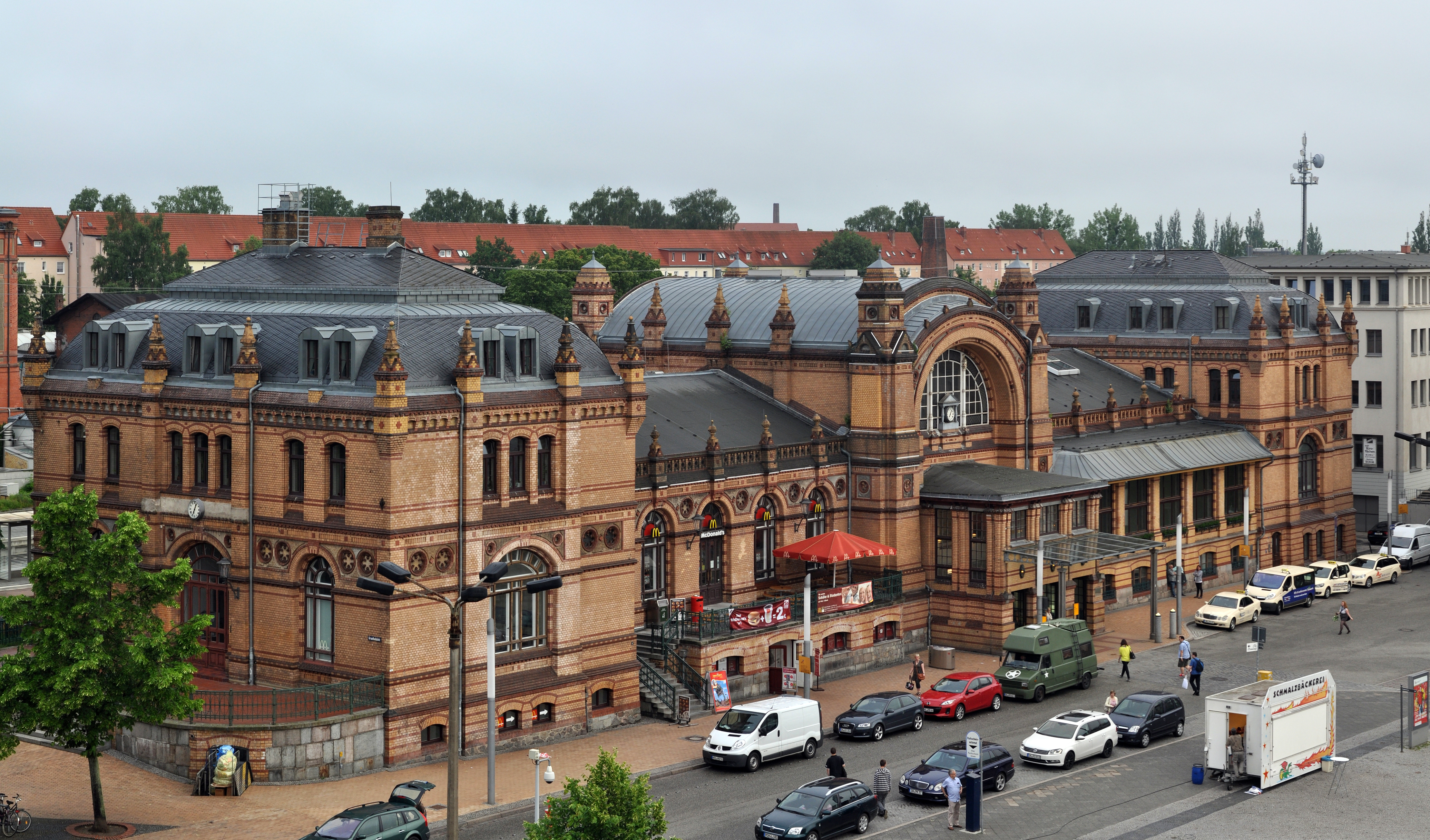 Schwerin, central station